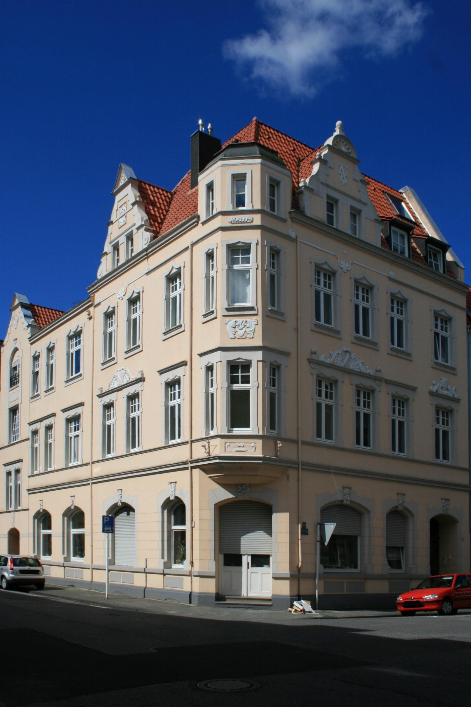 Cultural heritage monument No. G 036 in Mönchengladbach